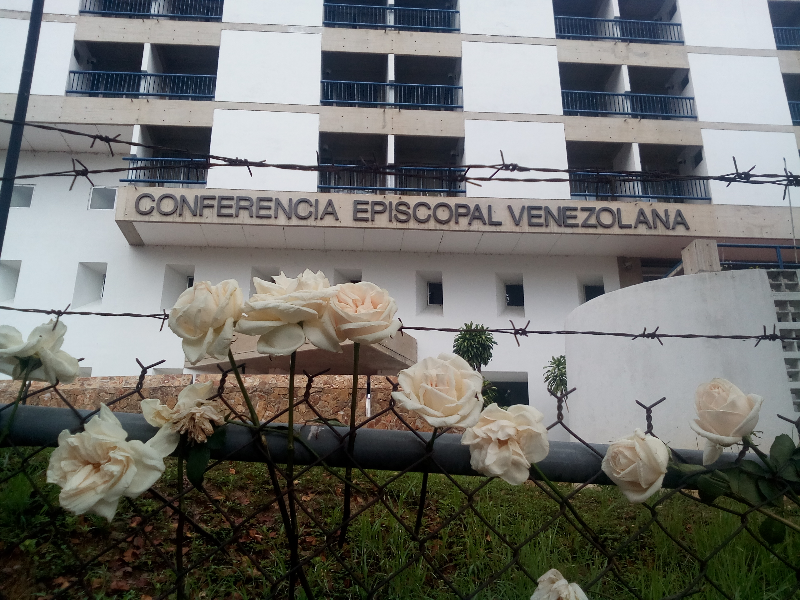 March of Silence in Venezuela, 22 April, 2017